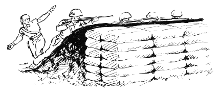 line art drawing